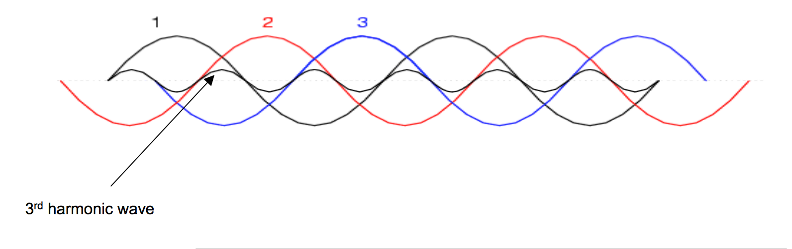 3rd order Harmonic Addition from three phases